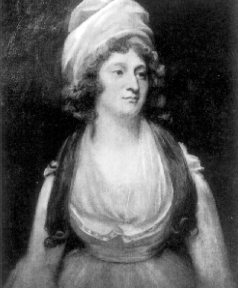 Lady Elizabeth Shelley, mother of Percy Bysshe Shelley and resident of Elcot House